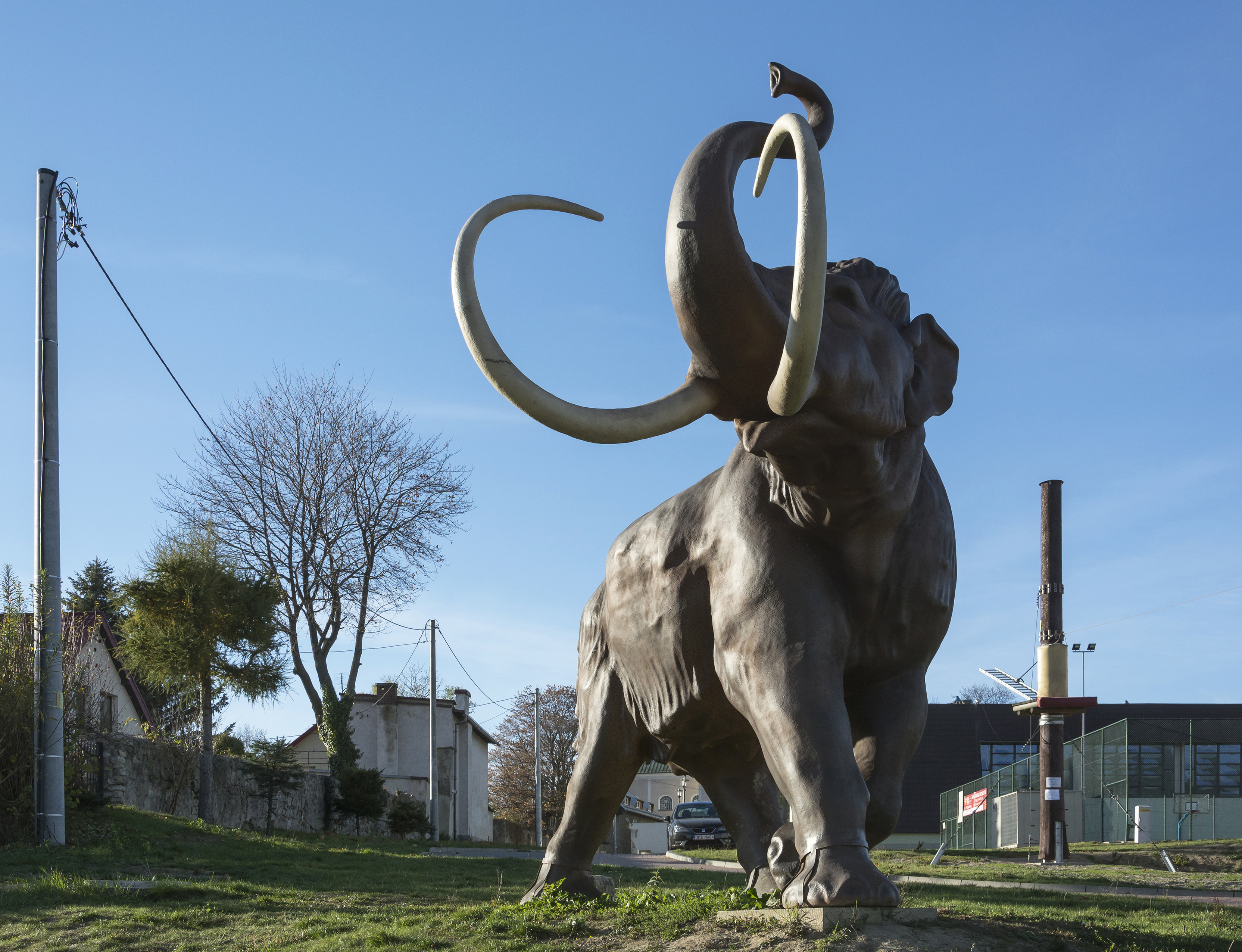 Mammoth model in Szczytna